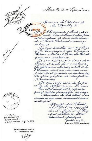 This is the picture of the letter Ho Chi Minh sent to president of France at 1911. The letter was printed in page 40 of the book Ho Chi Minh. De l'Indochine au Vietnam, Gallimard, collection "Découvertes Gallimard / Histoire" (nº 97), Paris, 1990